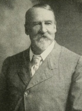 Thomas B. Cabaniss, Georgia Congressman